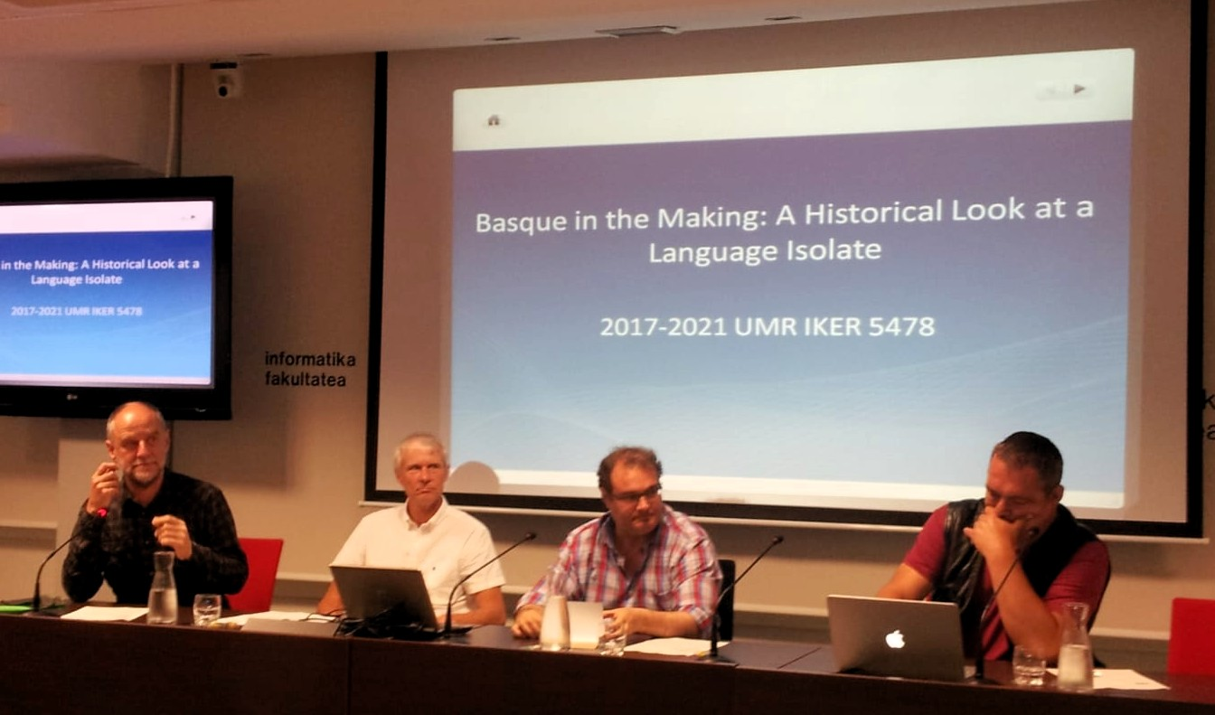 The basque linguist Ricardo Etxepare presenting Iker, his research group.